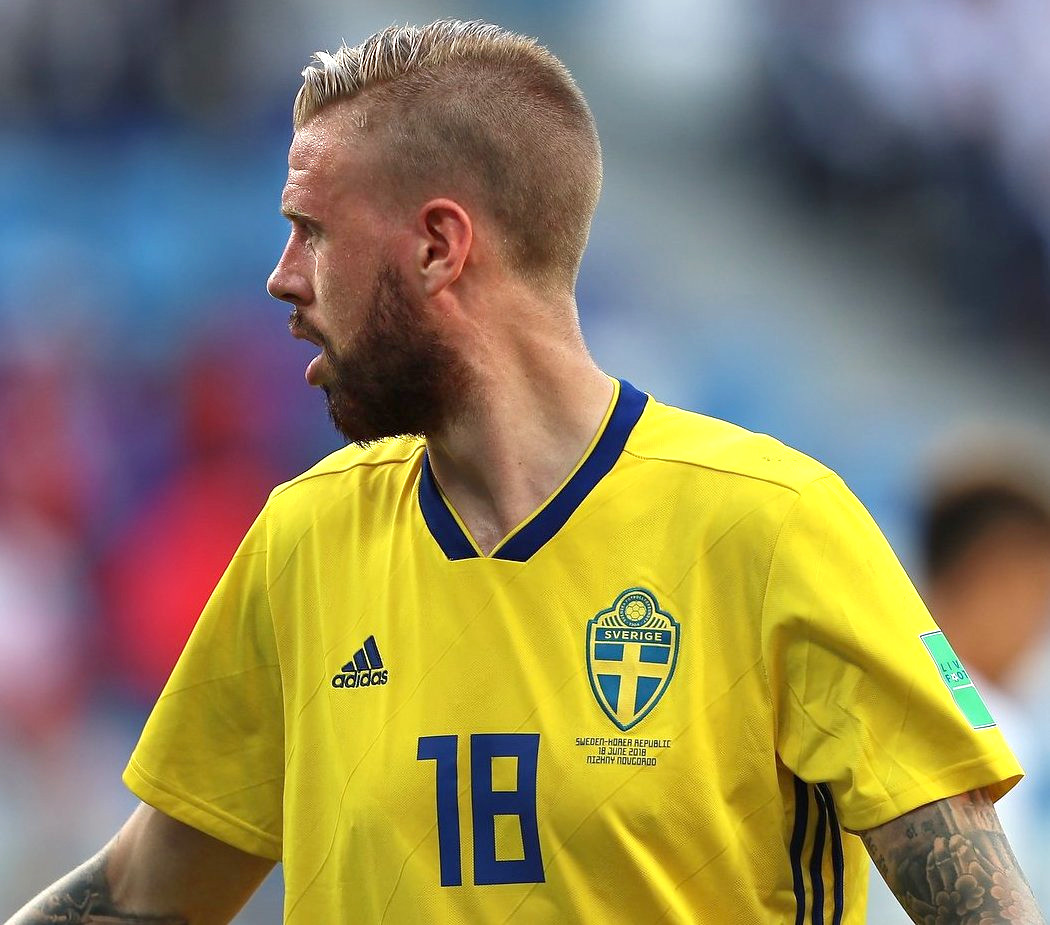 Pontus Jansson